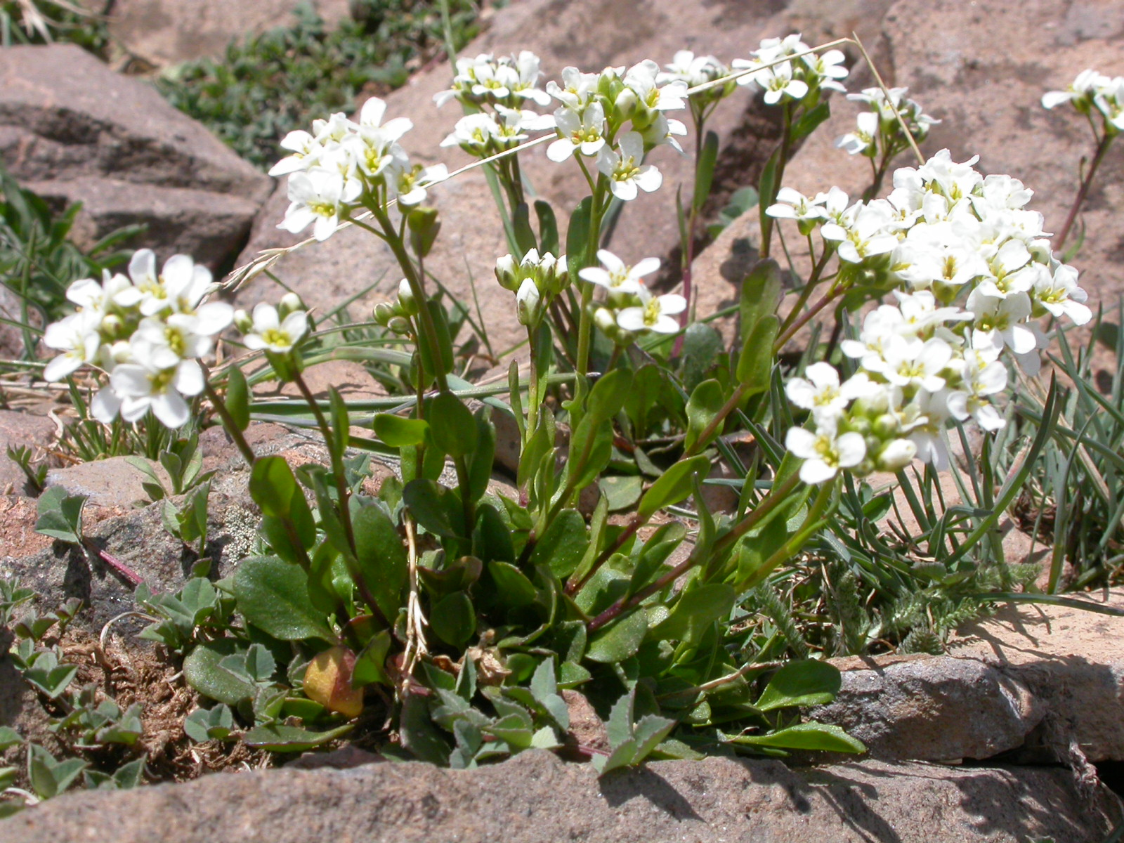 Thlaspi montanum is common on rocky loose soils and on outcrops in the forest understory or forest edge.